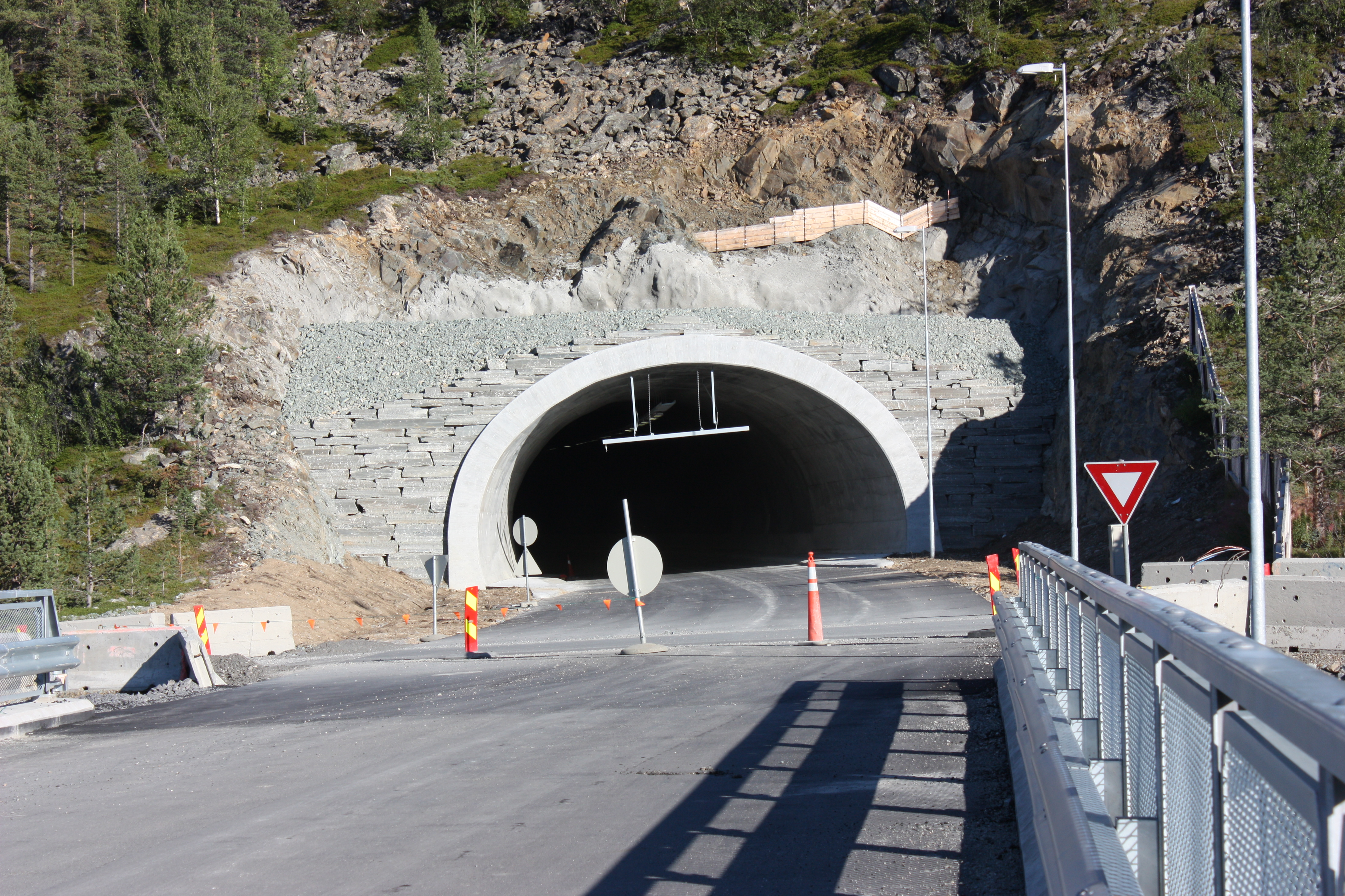 The northwestern entry point of the Tyskhaug Tunnel as of August 10, 2013.